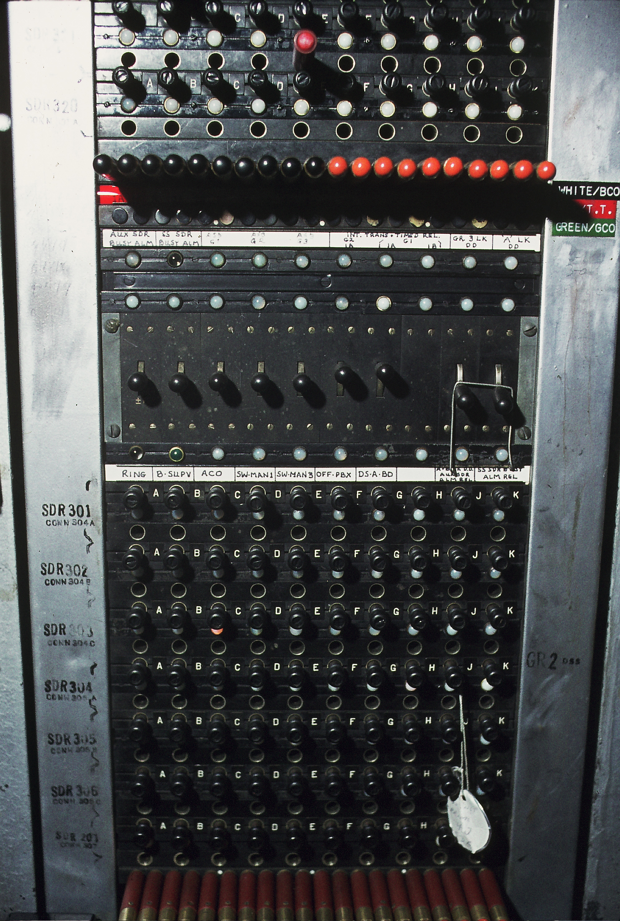 This is a portion of a Panel Sender Alarm, Prime and make busy panel. As can be seen in the photo Sender Frame 303 'SDR303' has Sender 'C' in alarm or 'stuck'. To try to release the stuck sender the button above the lamp would be pulled out and pushed back in. If this did not release the sender manual action was required at the sender itself. Also in this photo you will note Sender frame 304 'SDR304' has a maintenance tag for sender 'J'. Also note that there is no sender 'I'.